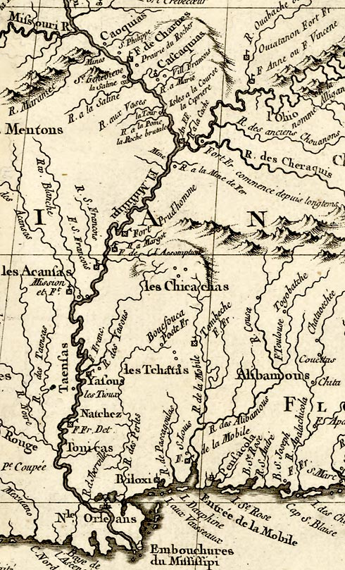 Area map of the Chickasaw Wars of 1720 - 1760. French campaigns began from New Orleans and Mobile in the south, and Fort de Chartres and Fort Vincennes in the north. Fort Prudhomme was a meeting place for d'Artaguette's forces in 1736, and Fort Assumption was the meeting place for all attack forces in 1739.